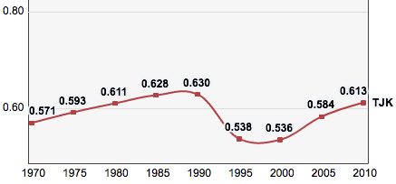 Trends in the Human Development Index for the country, 1970-2010